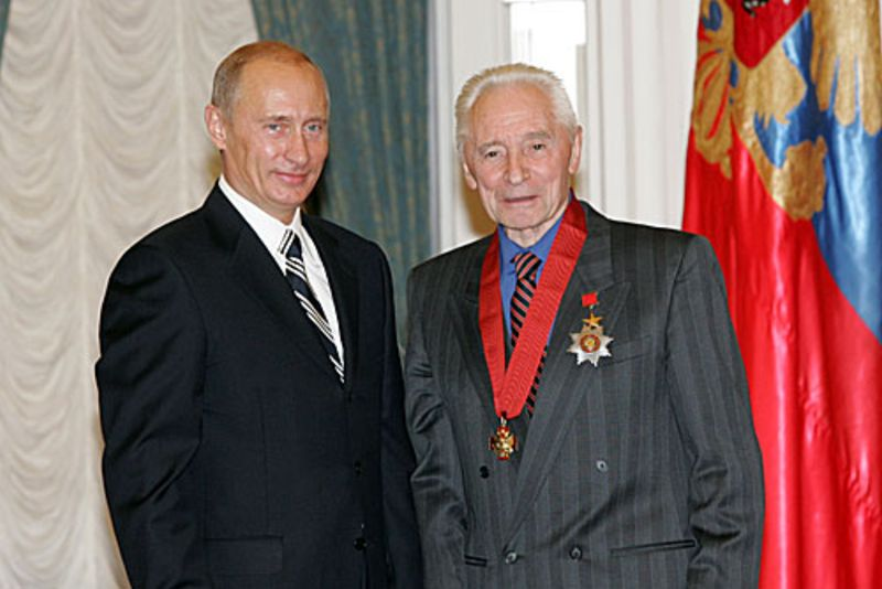 Yury Grigorovich, a Soviet / Russian ballet dancer and choreographer.